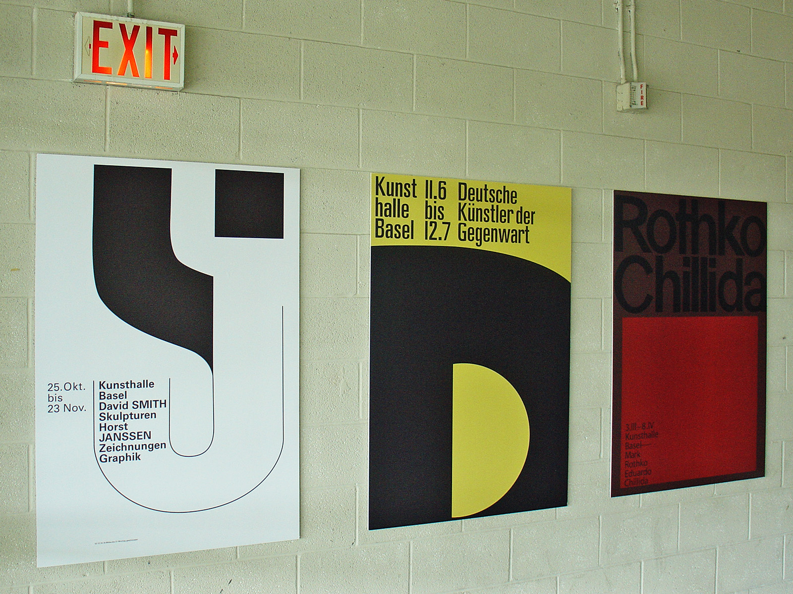 Mari Hulick wall at CIA (Cleveland Institute of Art) with posters by Armin Hofmann.